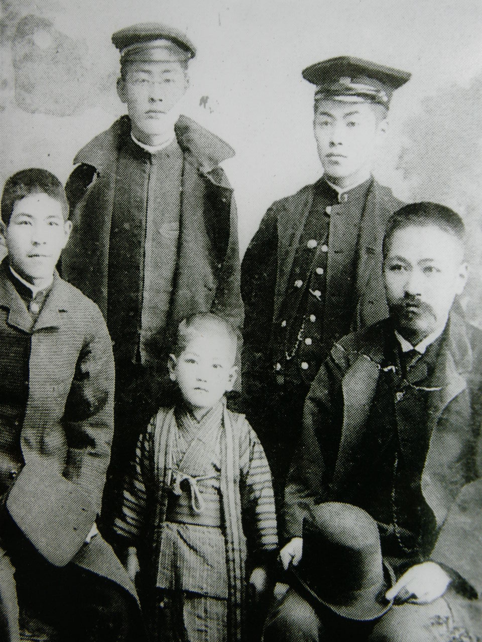 matsuoka brothers 松岡家兄弟（前列右より、松岡鼎、松岡冬樹〔鼎の長男〕、鈴木博、後列右より、柳田國男、松岡輝夫〔映丘〕）